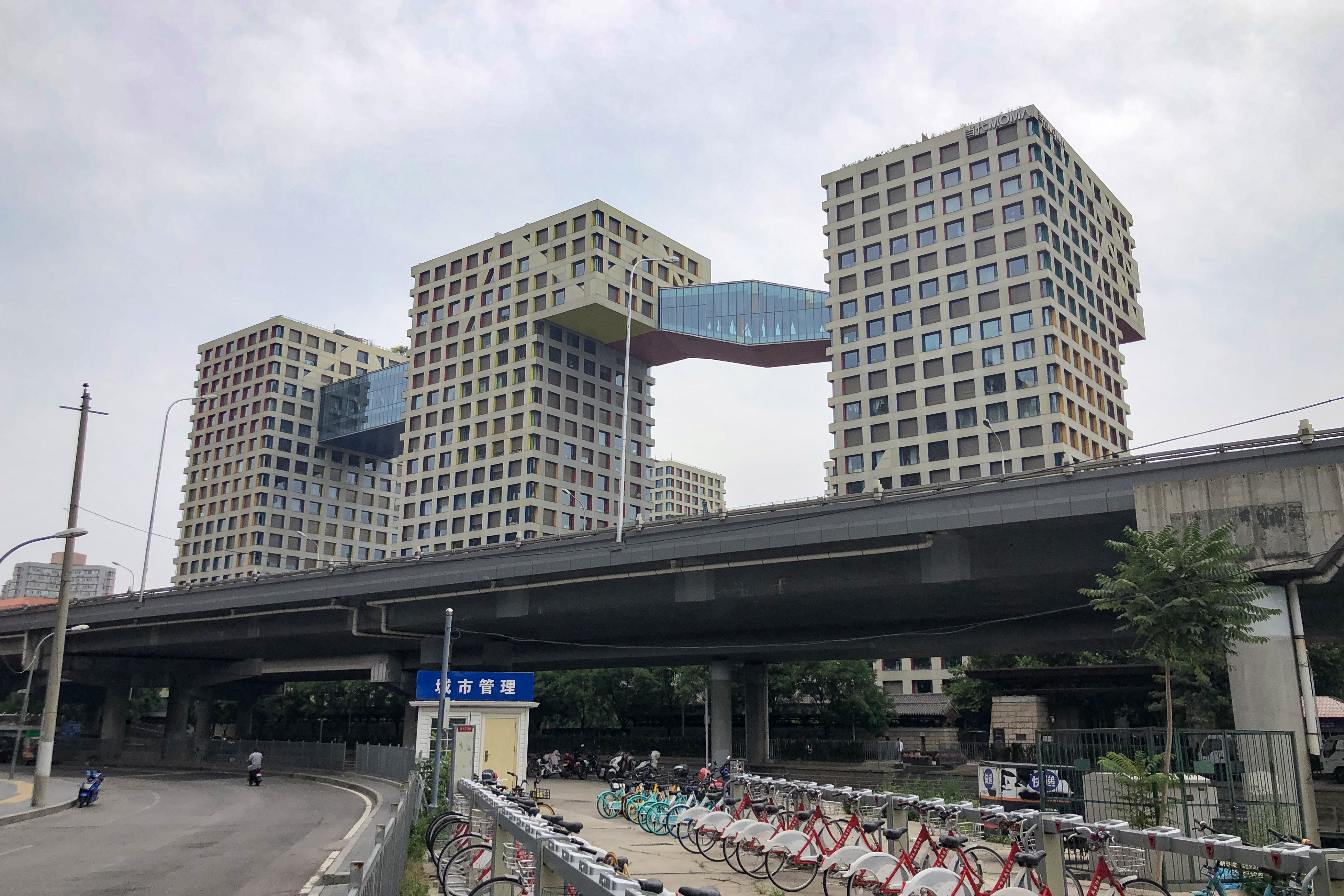 Maybe a full view can be accessed on airport expressway?